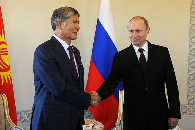 Meeting Vladimir Putin and Almazbek Atambayev 2015-03-16.